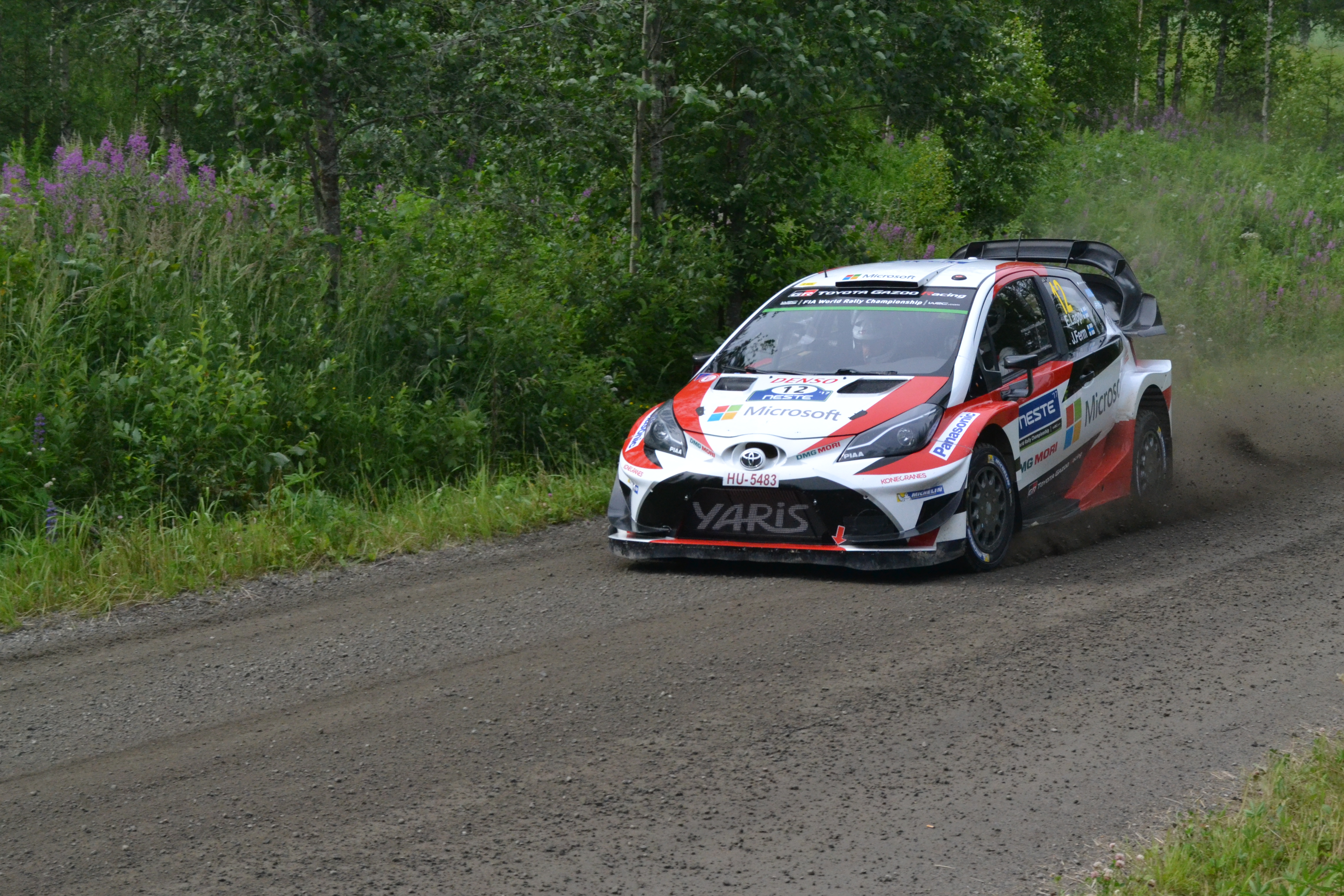 Esapekka Lappi at second Saalahti stage at Rally Finland 2017